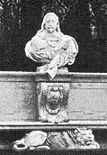 Bust of Colonel Konrad von Burgsdorff (1595-1652), left side figure in the monument group № 24 in the former Siegesallee in Berlin commemorating Brandenburg’s Margrave and Elector George William (1595–1640). Sculptor: Cuno von Uechtritz-Steinkirch. The sculpture was unveiled on 23 December 1899.